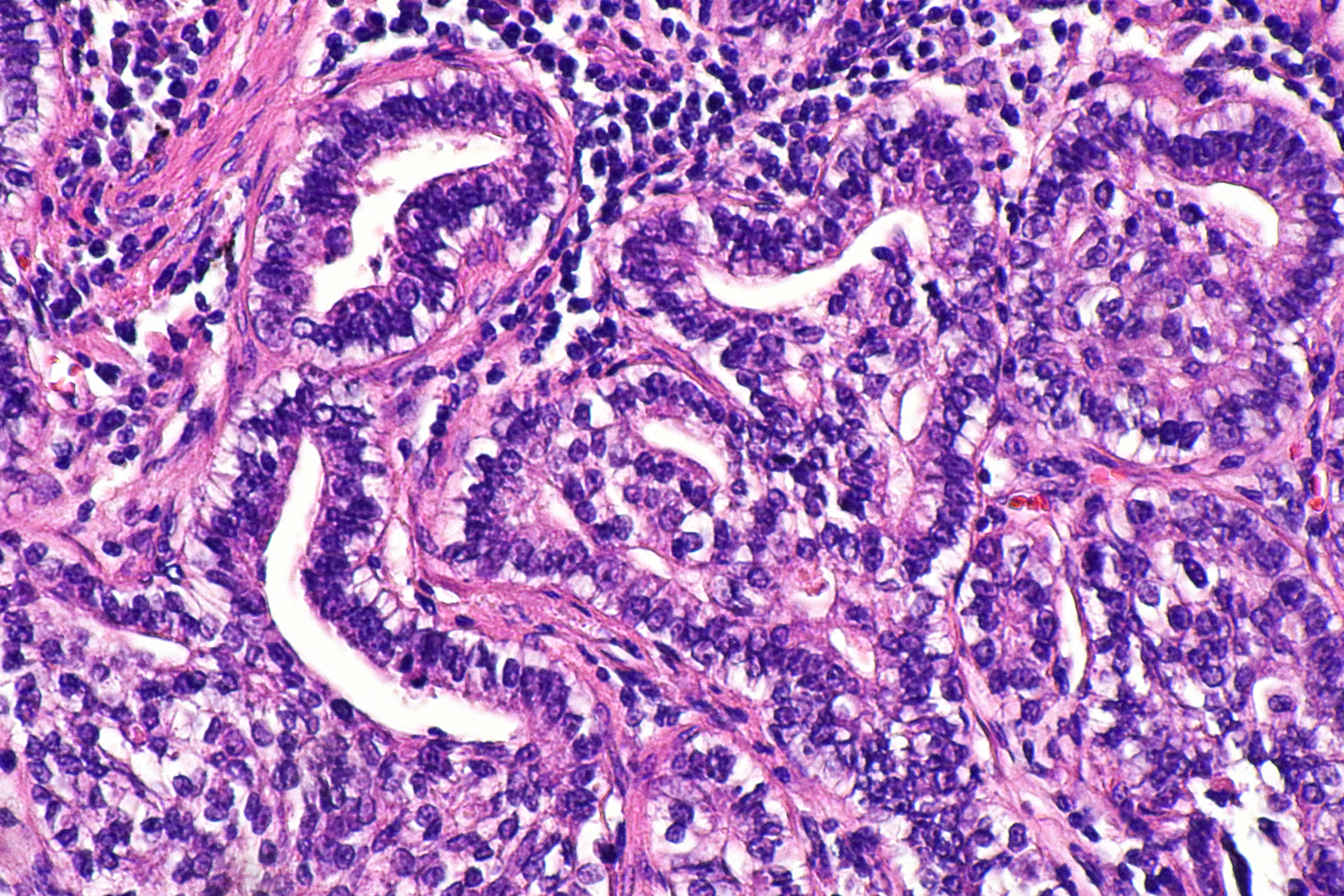 Micrograph showing fetal adenocarcinoma of the lung, also fetal adenocarcinoma. H&E stain. Related images FAL - very low mag. FAL - very low mag. FAL - very low mag. FAL - low mag. FAL - intermed. mag. FAL - high mag.